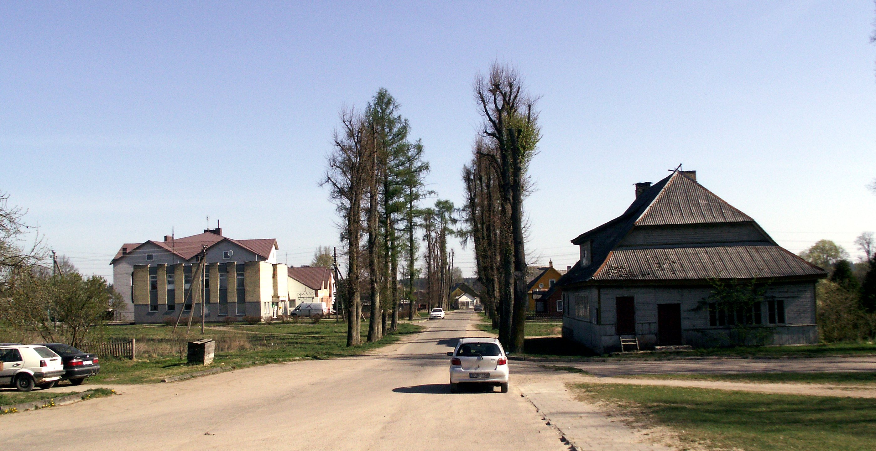 Lavoriškės, Vilnius district, Lithuania